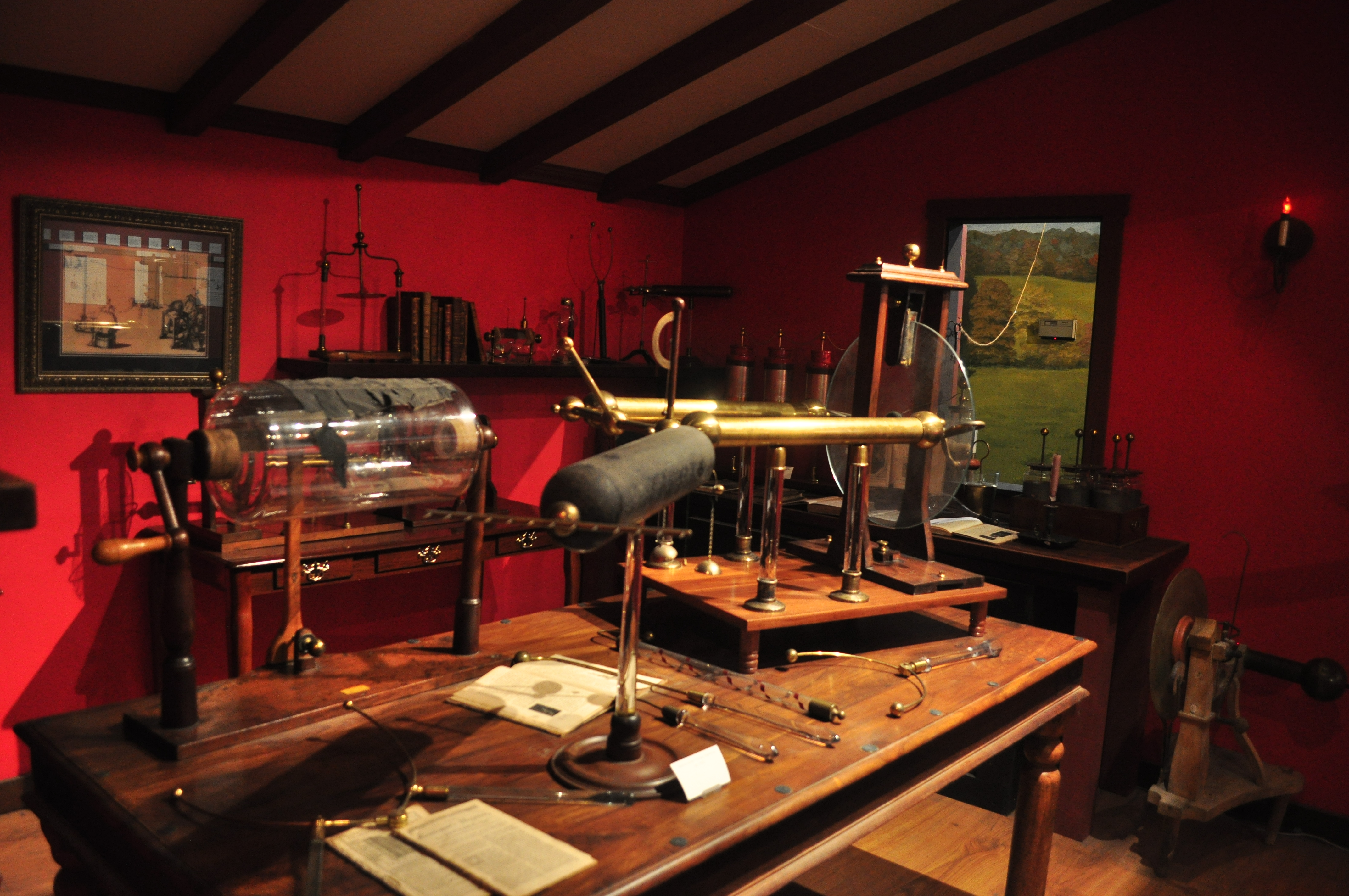 Static electricity exhibit, SPARK Museum of Electrical Invention, Bellingham, Washington, U.S.